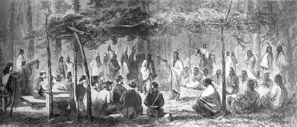 Council at Medicine Lodge Creek This drawing by J. Howland, originally printed in Harper's Weekly, depicts the council between representatives of the U.S. government and the Kiowa and Comanche tribes at Medicine Creek Lodge, Kansas, in 1867. At this council the Kiowa, Comanche, Plains Apache, Cheyenne and Arapaho tribes signed three successive treaties with the United States government, collectively known as the Medicine Lodge treaty.